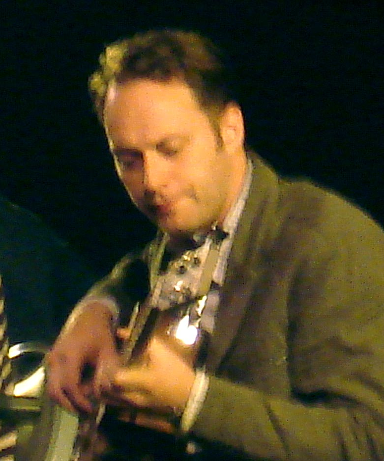 Sigur Rós member Georg Hólm